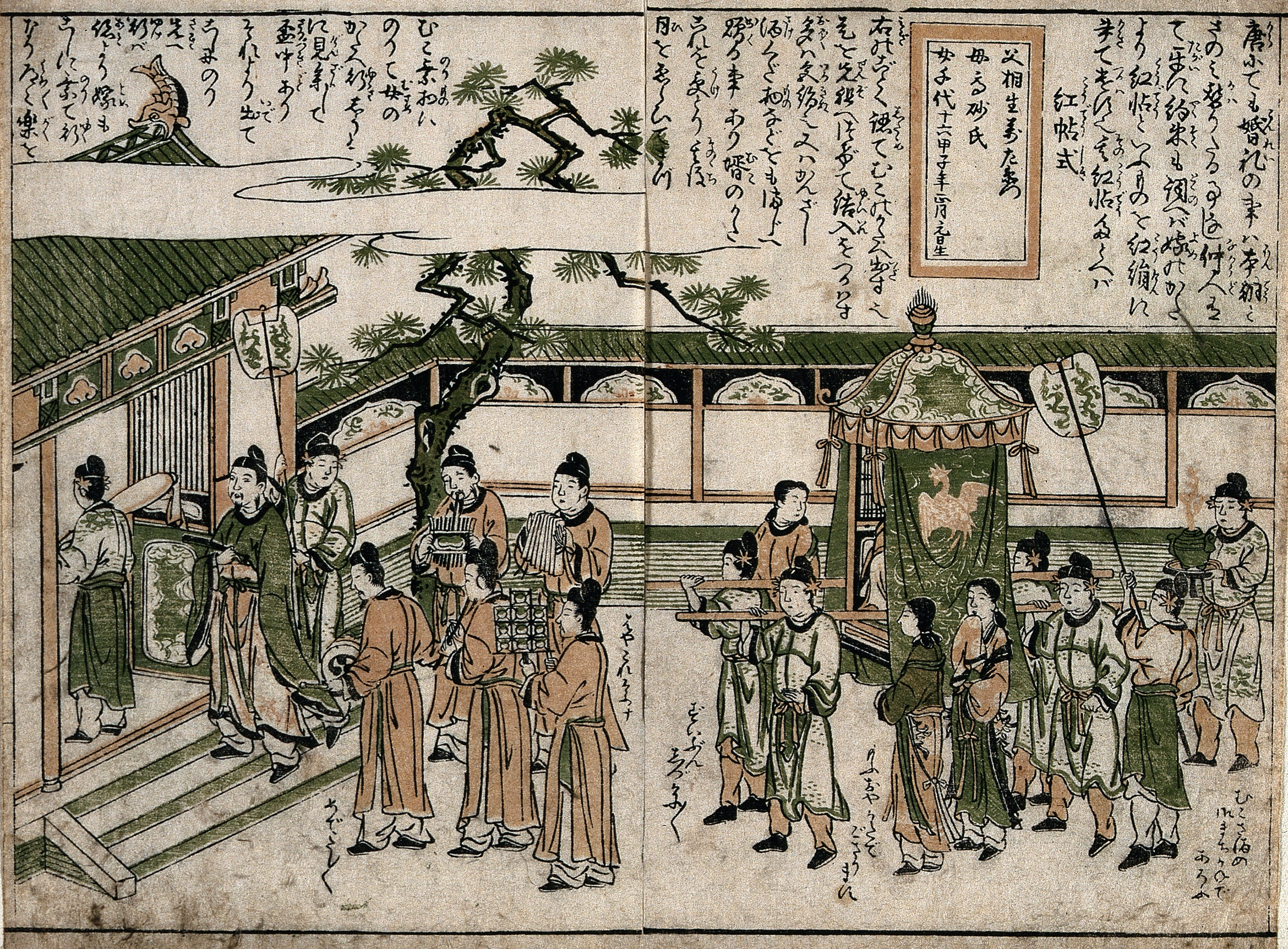 A Chinese wedding: the bride is carried to her new home in a palanquin as part of a procession Iconographic Collections Keywords: Ceremony; Crowd; People; Procession; Japanese; Shigemasa Kitao; Wedding; Japan